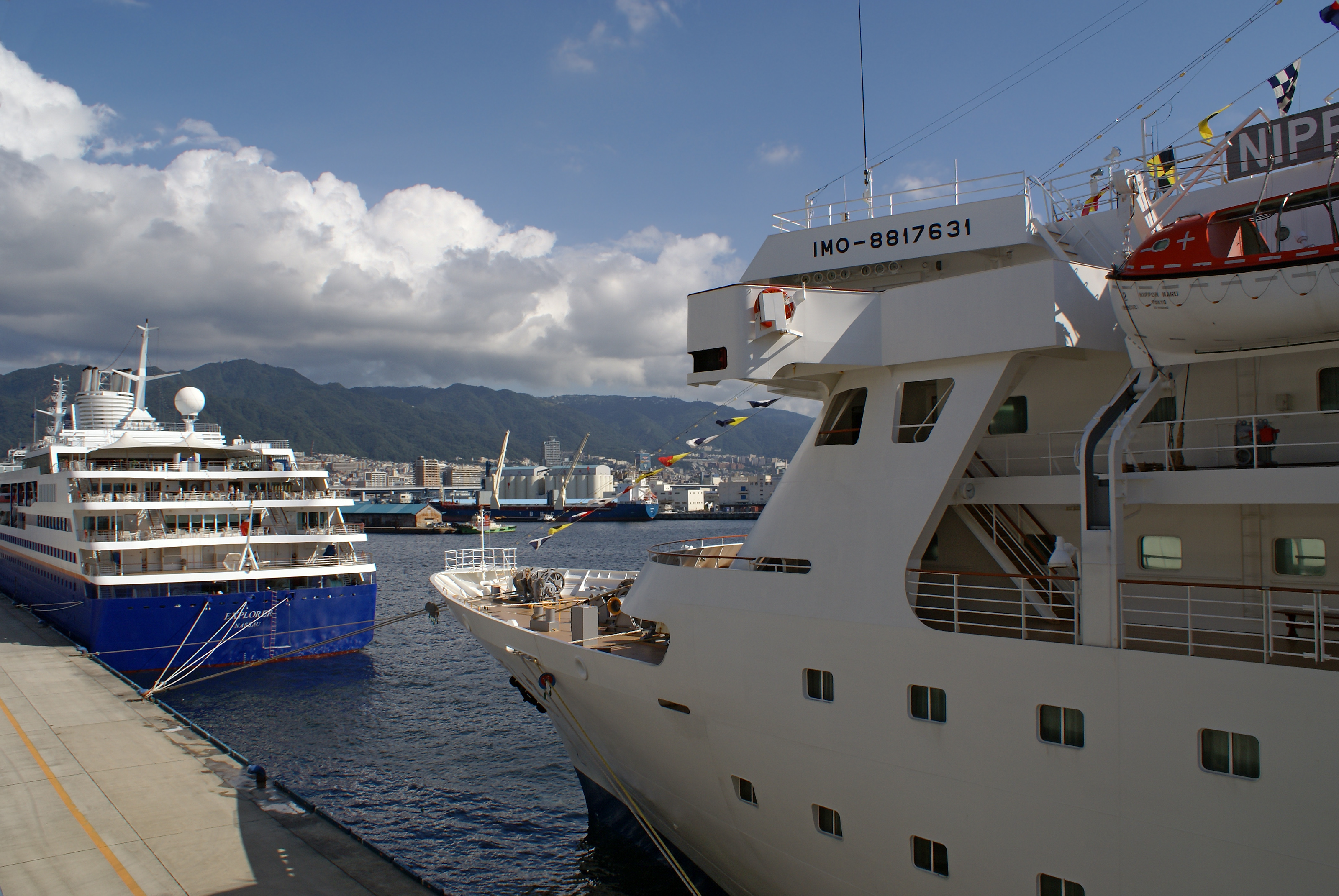 "Nipponmaru" and "Explorer" who anchors at "Kobe Port Terminal" of the Kobe harbor ( Kobe, Hyogo, Japan)